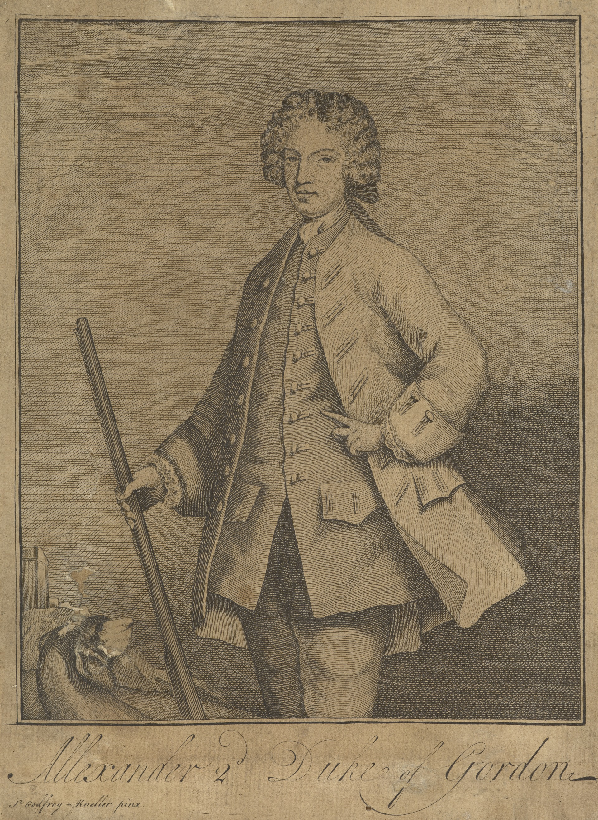 Unknown; after Sir Godfrey Kneller